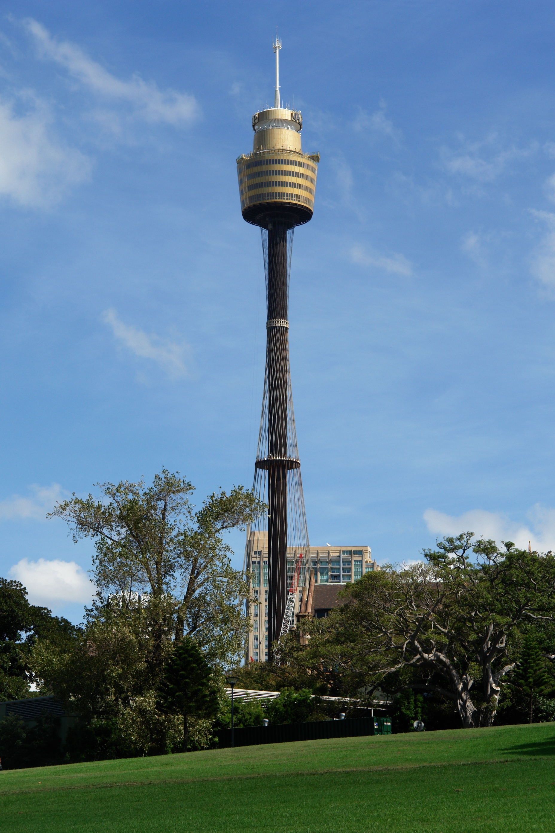 Centrepoint, Sydney Tower, AMP Skywalk